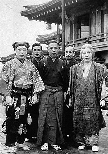 Front row, l-r, Danshirō Ichikawa III (1908–63), Utashito Nakashima (1896–1979) and Ennosuke Ichikawa II (1888–1963), at Kyoto Minami-za theatre.